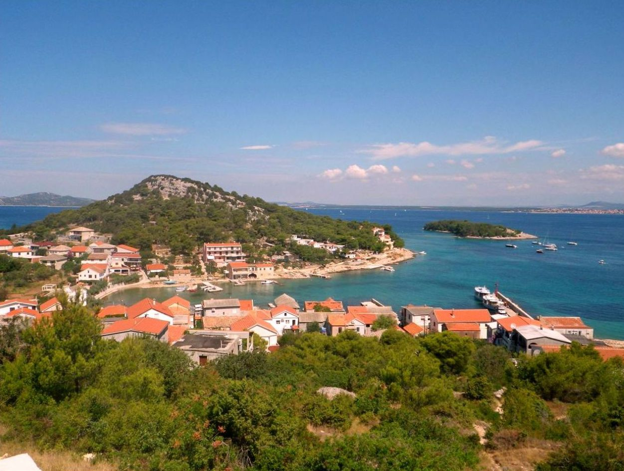 Vrgada settlement on the eponymous island and the island Artina.